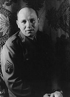 Romare Bearden photo taken by Carl Van Vechten, photographer. CREATED/PUBLISHED 1944 Apr. 15.